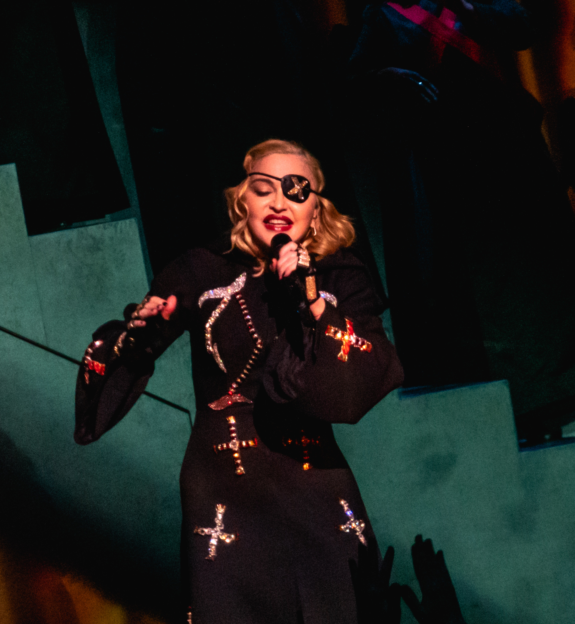 Madonna - London Palladium - Sunday 16th February 2020